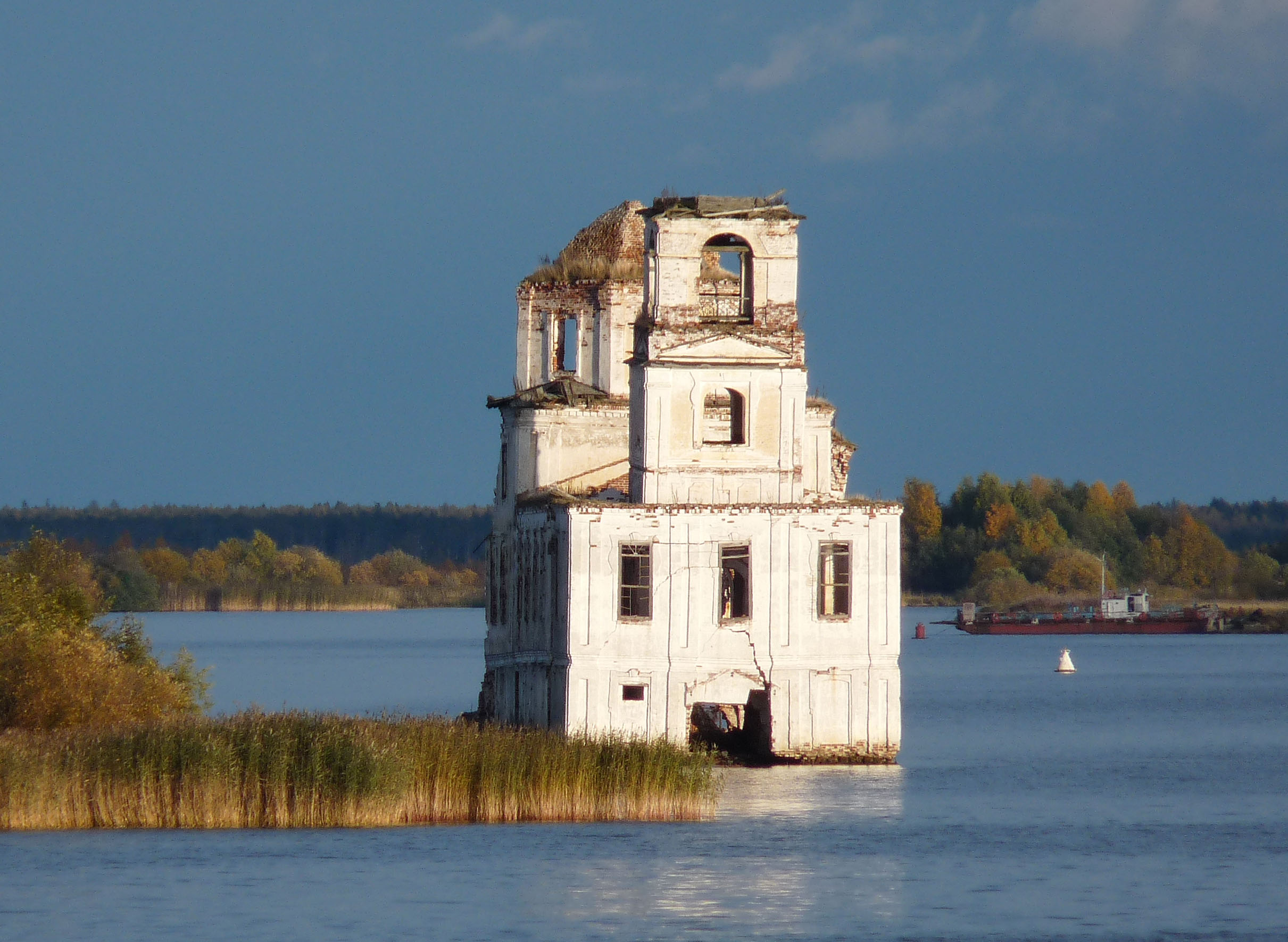 Krokhino Church, Sheksna River, White Lake.